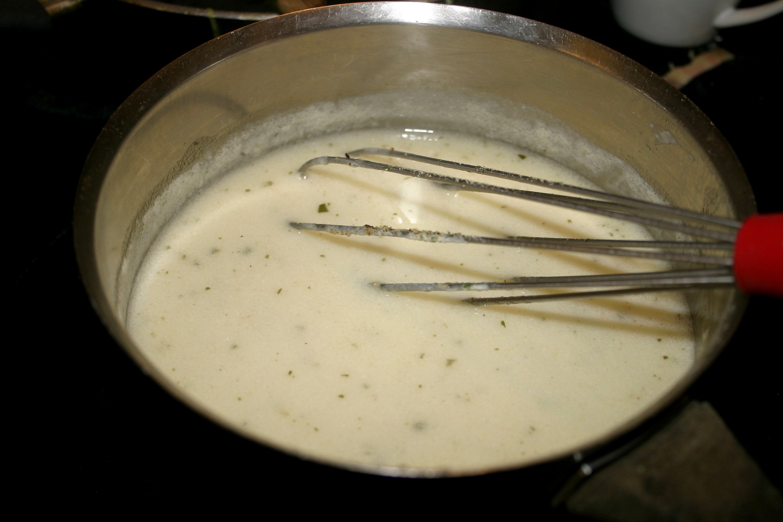 A roux-based sauce with chicken stock, white wine and cream.